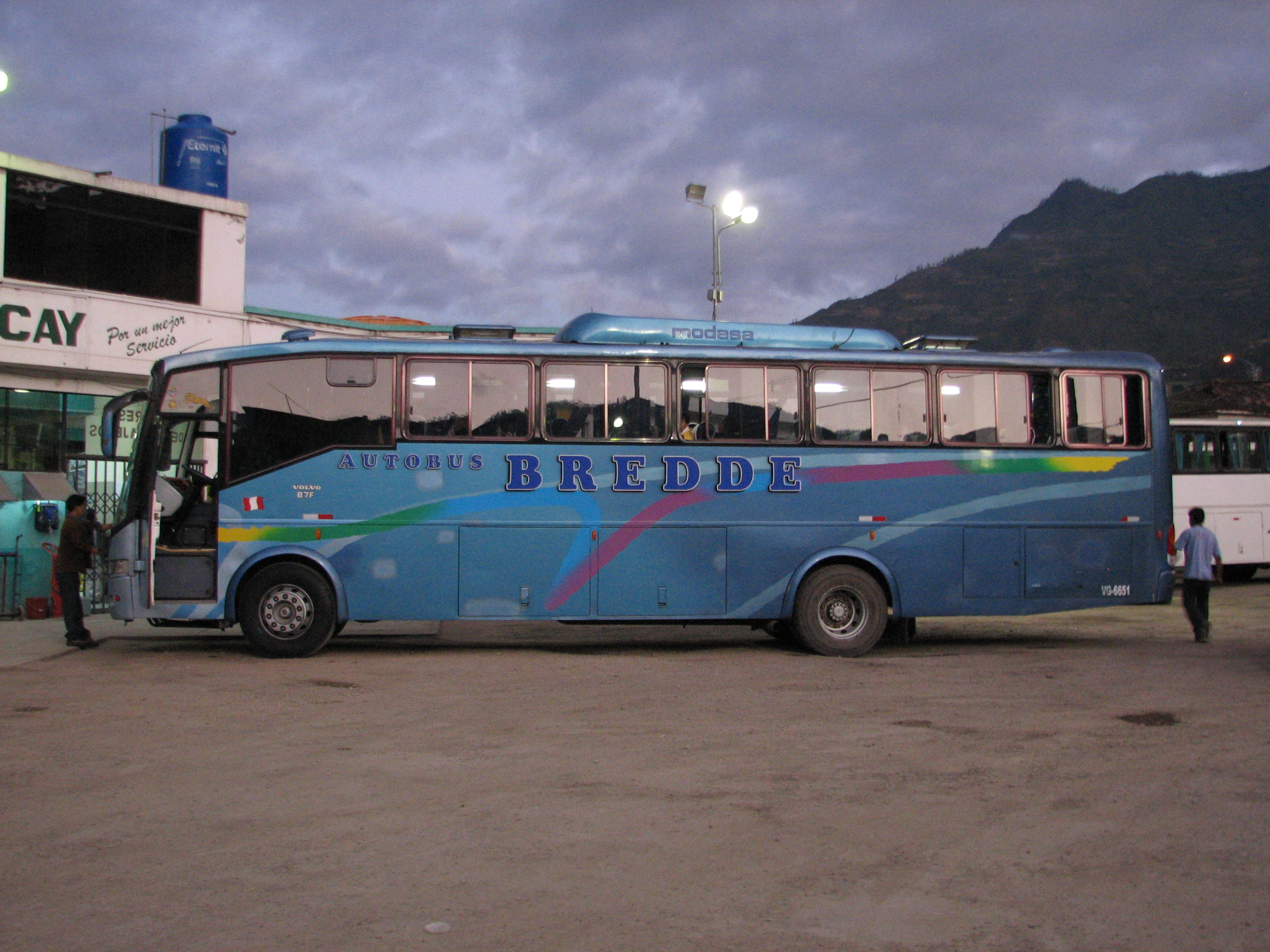 Volvo Bus B7F from the Bredde company at Abancay central bus station, Peru.